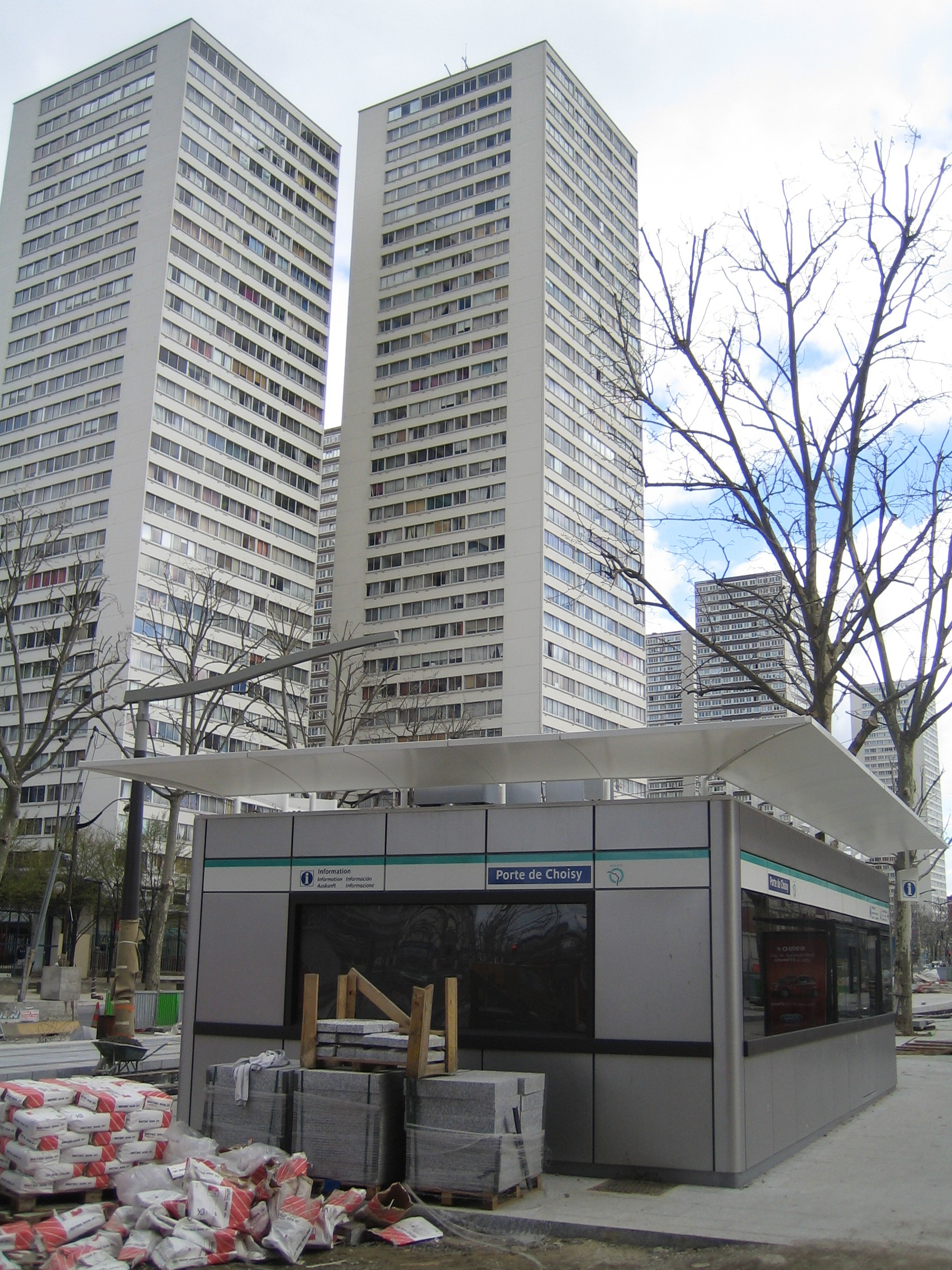 Porte de Choisy, in Paris, with the tramway station. Photo taken by Thierry in Nov. 2005.